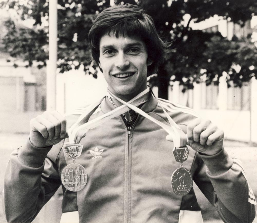 Venanzio Ortis in a 1978 shot, with the two medal won at the 1978 European Athletics Championships